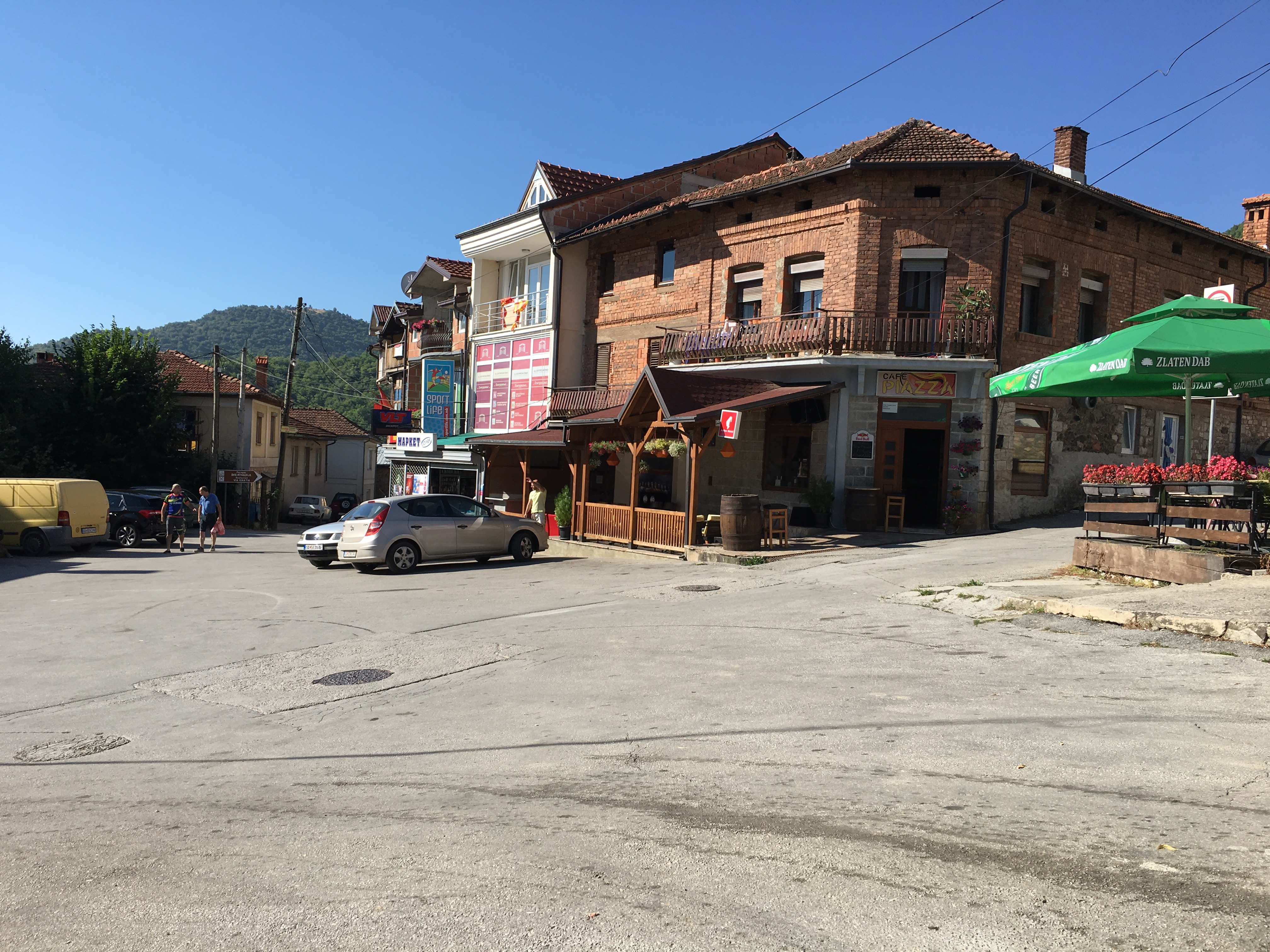 The mid-village of Vevčani